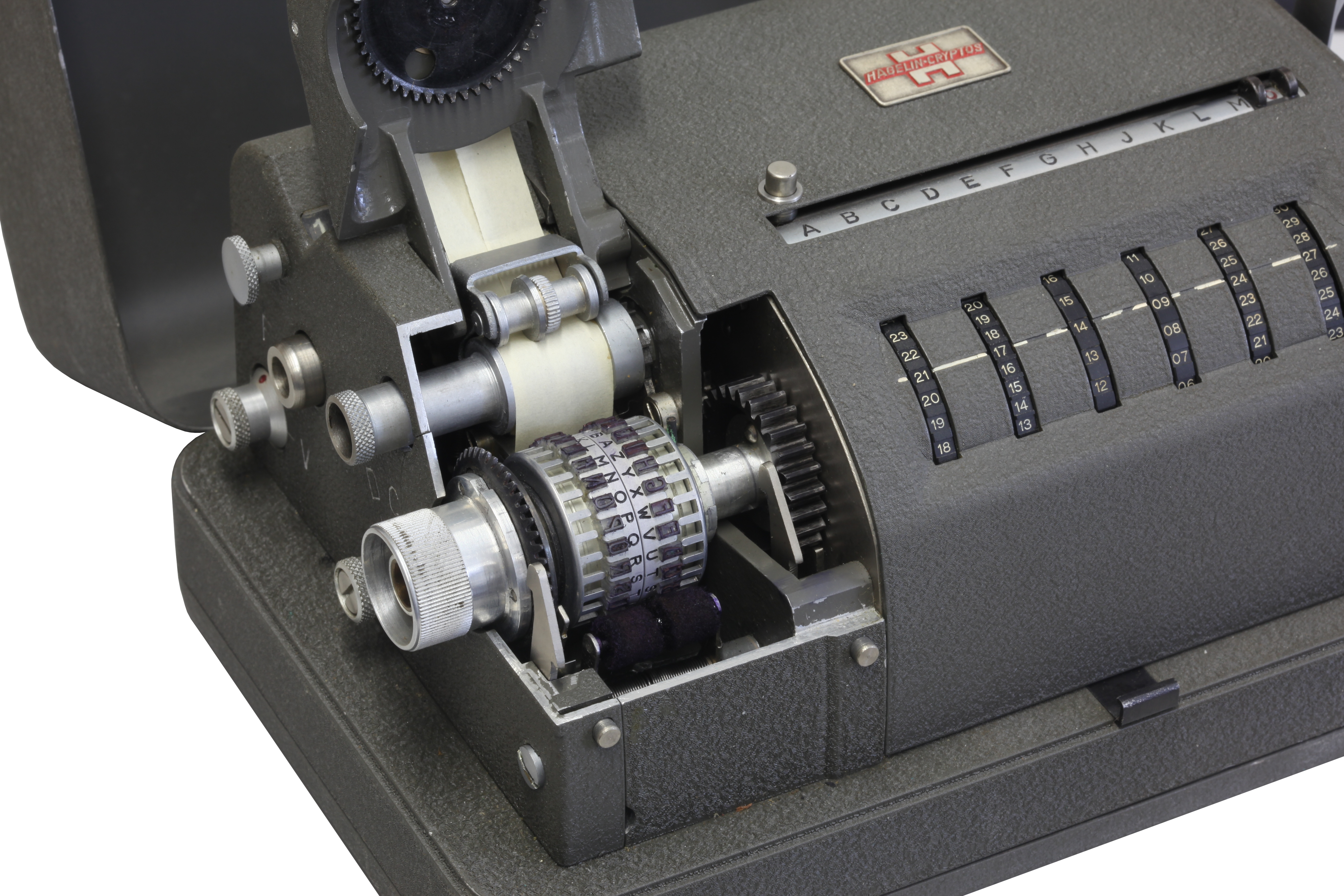 Hagelin CX-52. Cryptography collection of the Swiss Army headquarters The making of this document was supported by Wikimedia CH.(Submit your project!) For all the files concerned, please see the category Supported by Wikimedia CH.